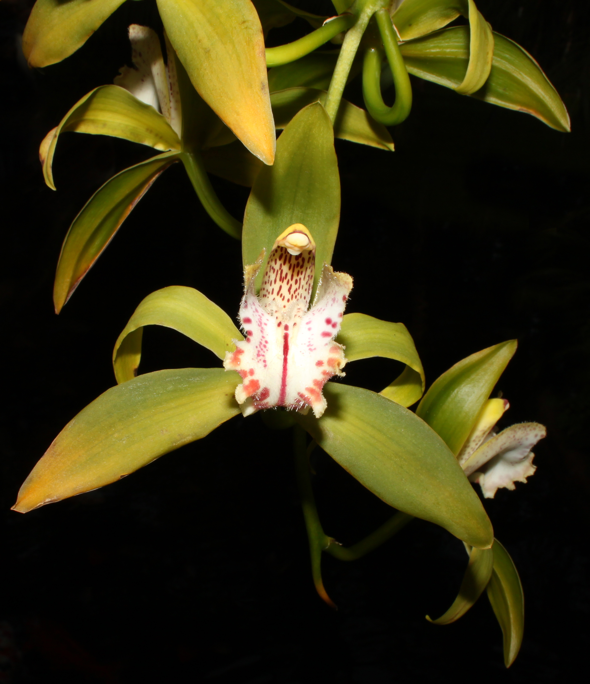 Cymbidium hookerianum, syn.: Cymbidium grandiflorum or Cyperorchis grandiflora, Family: Orchidaceae